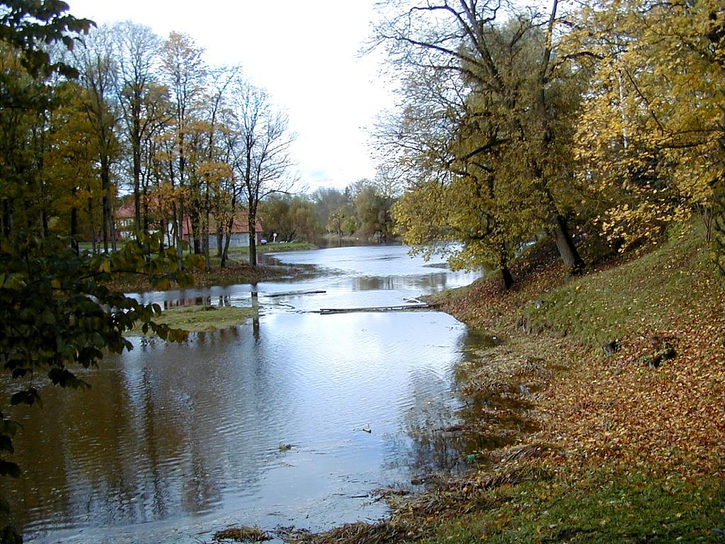 Jaunpils estate pond